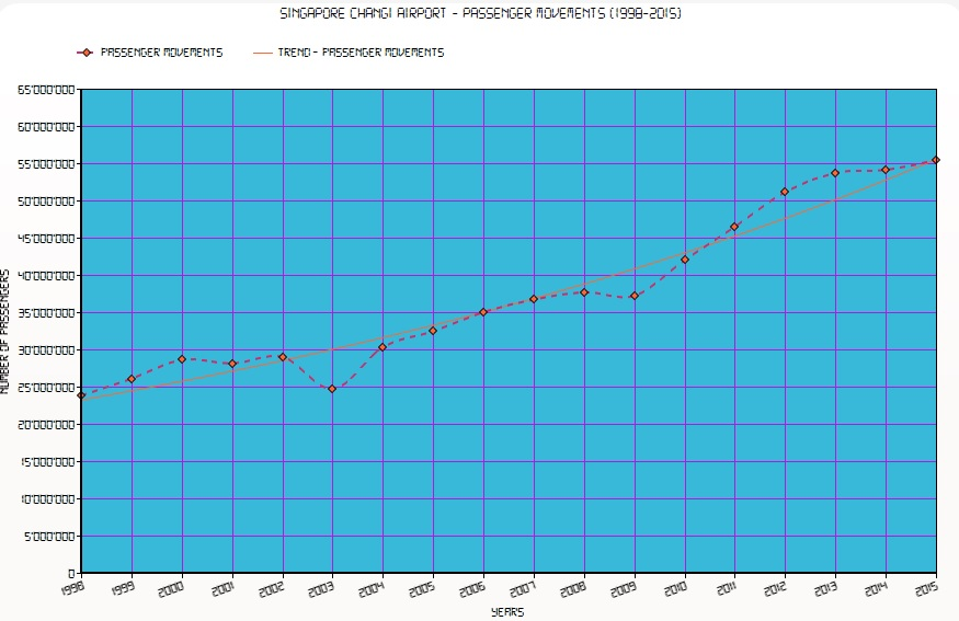 Singapore Changi Airport - Passenger Movements (1998-2015)